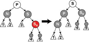 Produced by Derrick Coetzee in Illustrator and Photoshop for the red-black tree page. Size reduced with pngcrush.